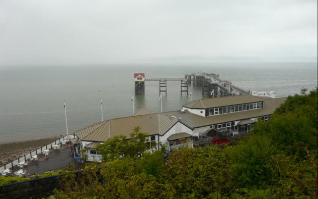 Mumbles Pier & Lifeboat Station Taken on Midsummers Day. Somewhere in the murk beyond the pier is Swansea Bay.